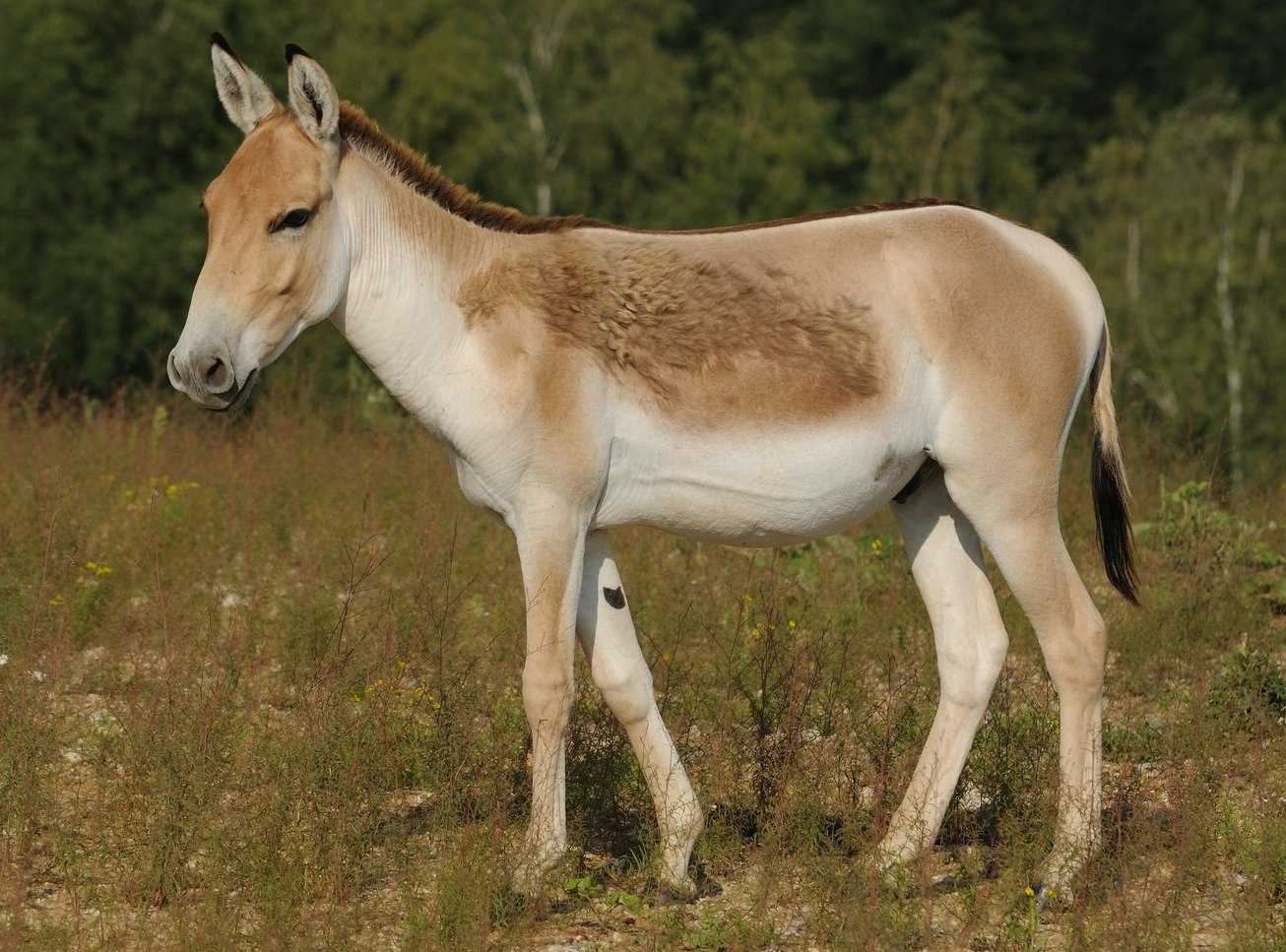 Kulan, asian Half-Donkey